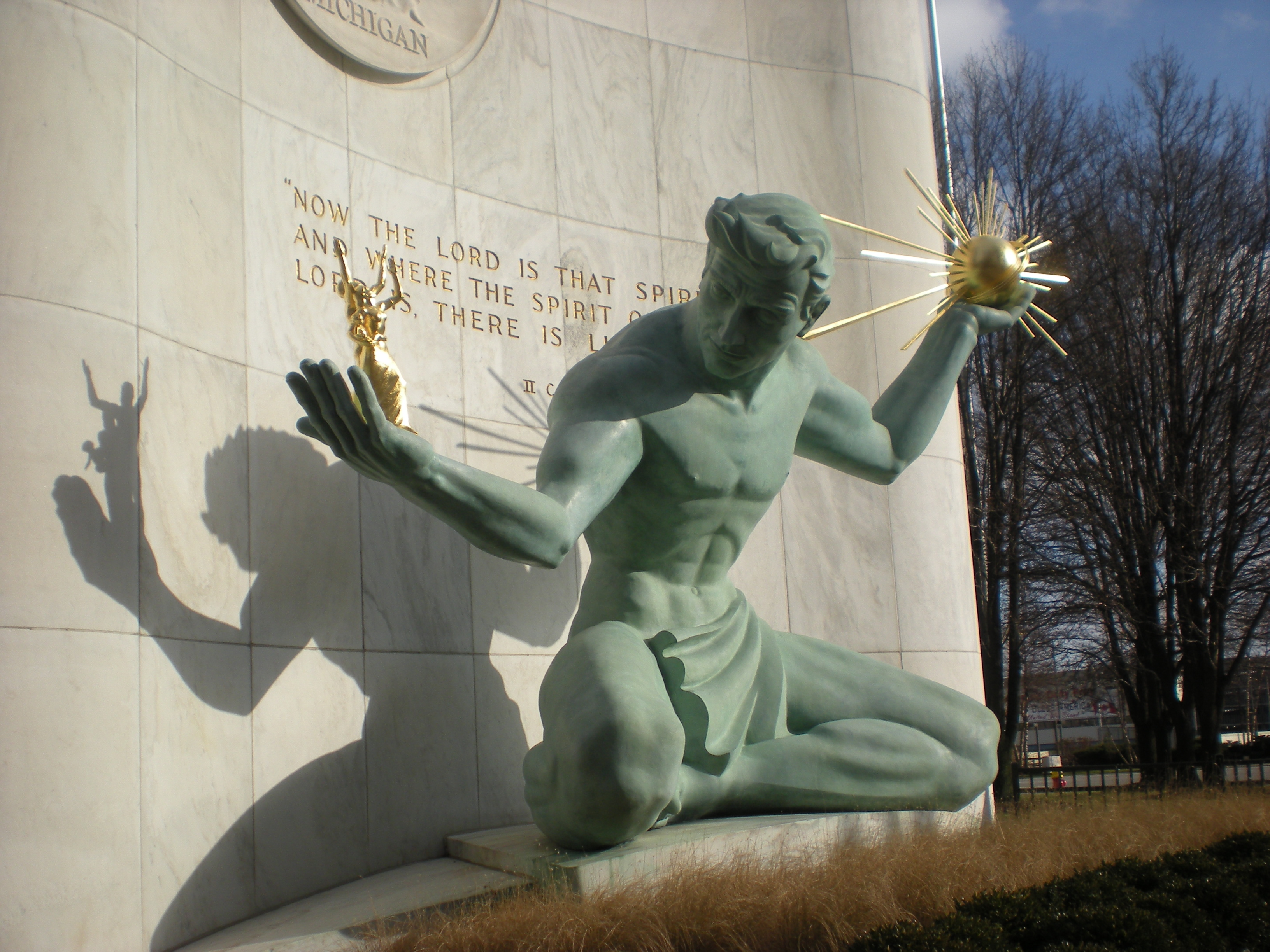 The Spirit of Detroit — by Marshall Fredericks (1908-1998). Commissioned in 1955, dedicated in 1958 at the Coleman A. Young Municipal Center in downtown Detroit, Michigan. Photo taken in December of 2009